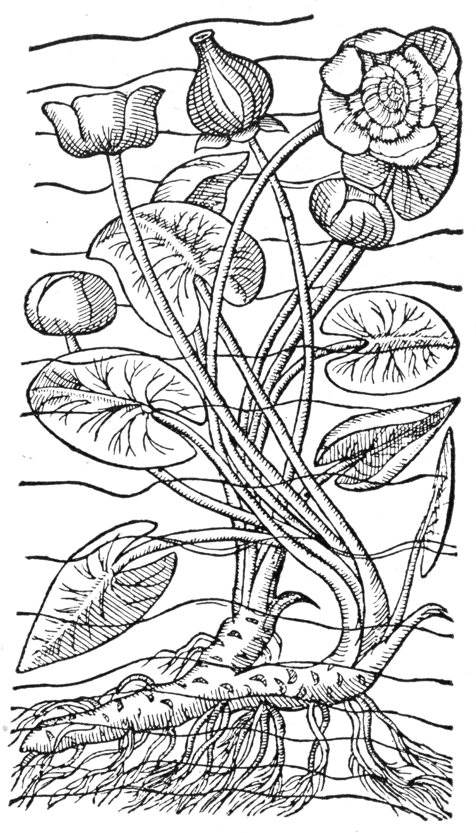 Nymphaea from Rariorum plantarum (1601)